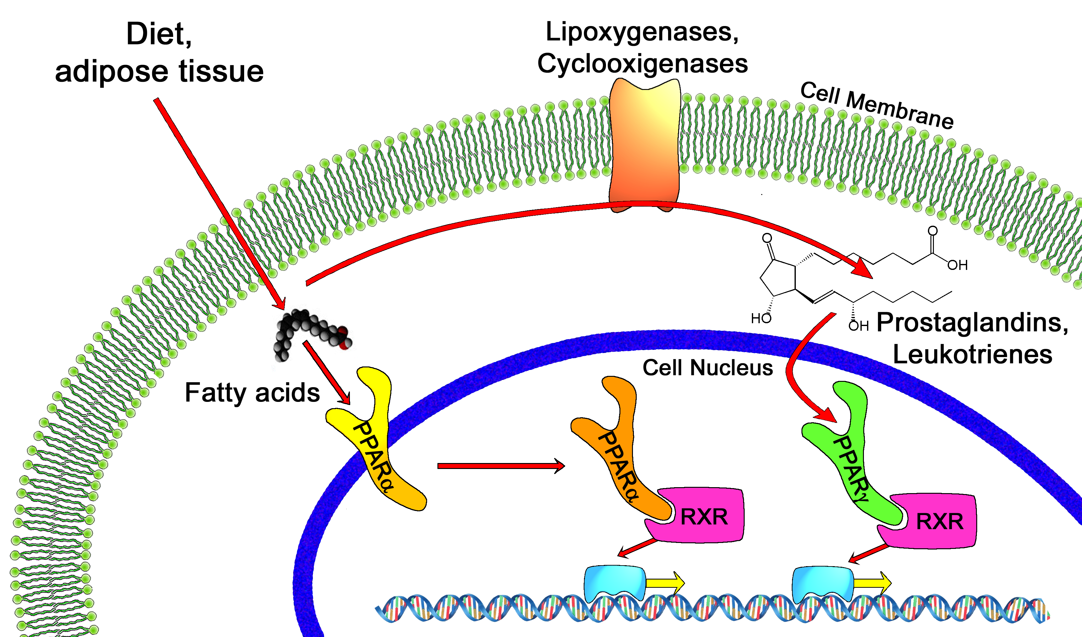 Peroxisome proliferator-activated receptor pathway diagram